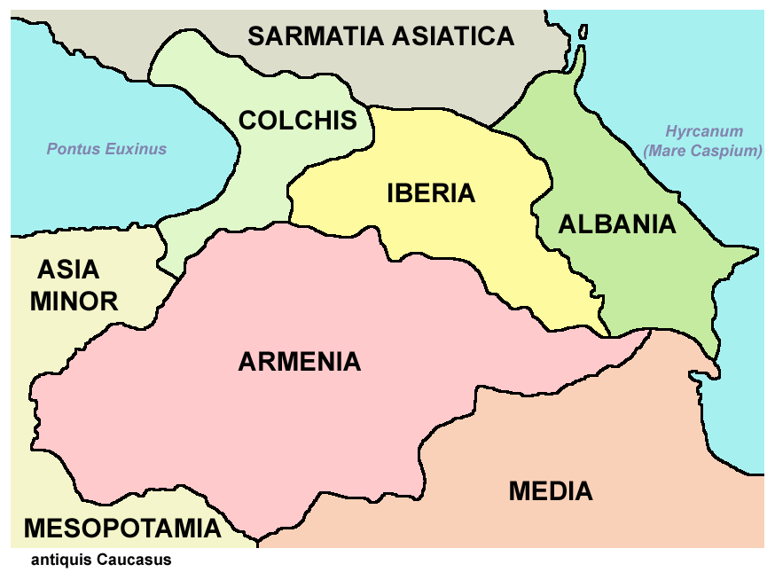 Map of ancient Caucasus - Armenia, Colchis, Iberia, Albania (Latin language version).